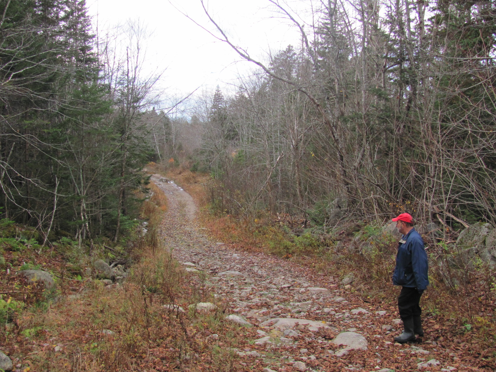 The Old Annapolis Road, near Halifax, Nova Scotia, close to its eastern beginning from the Pockwock Road. This section was also known as the Camptown Road.